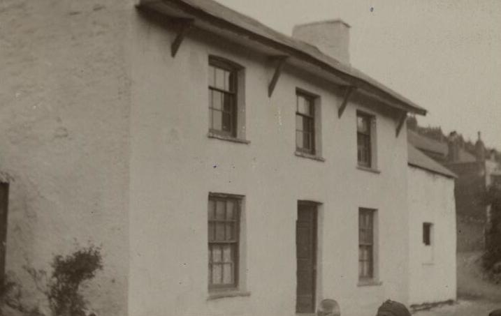 A portrait from the Welsh Portrait Collection at the National Library of Wales. Depicted person: Y ty lle ganwyd Islwyn'